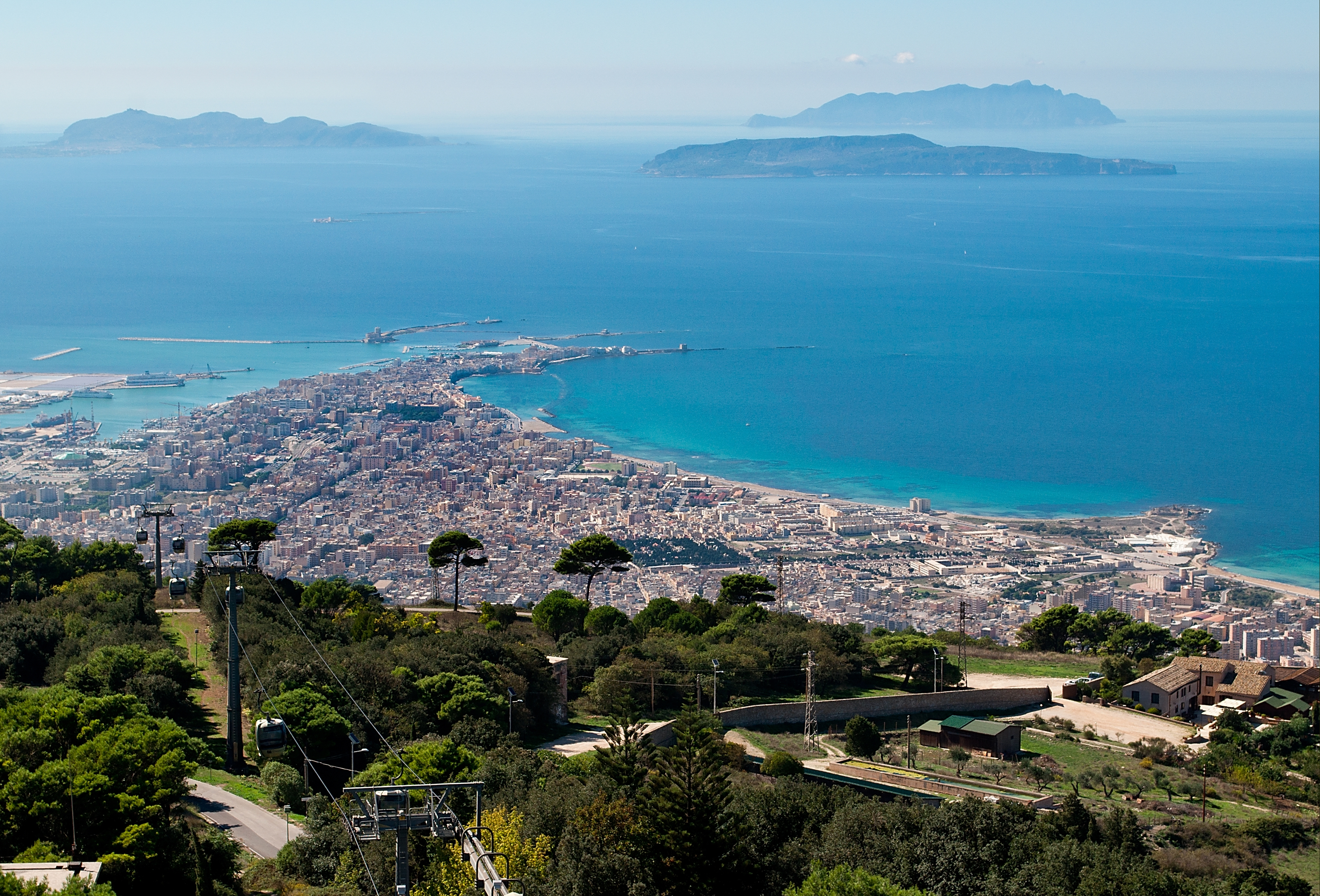 Trapani viewed from the mountain.